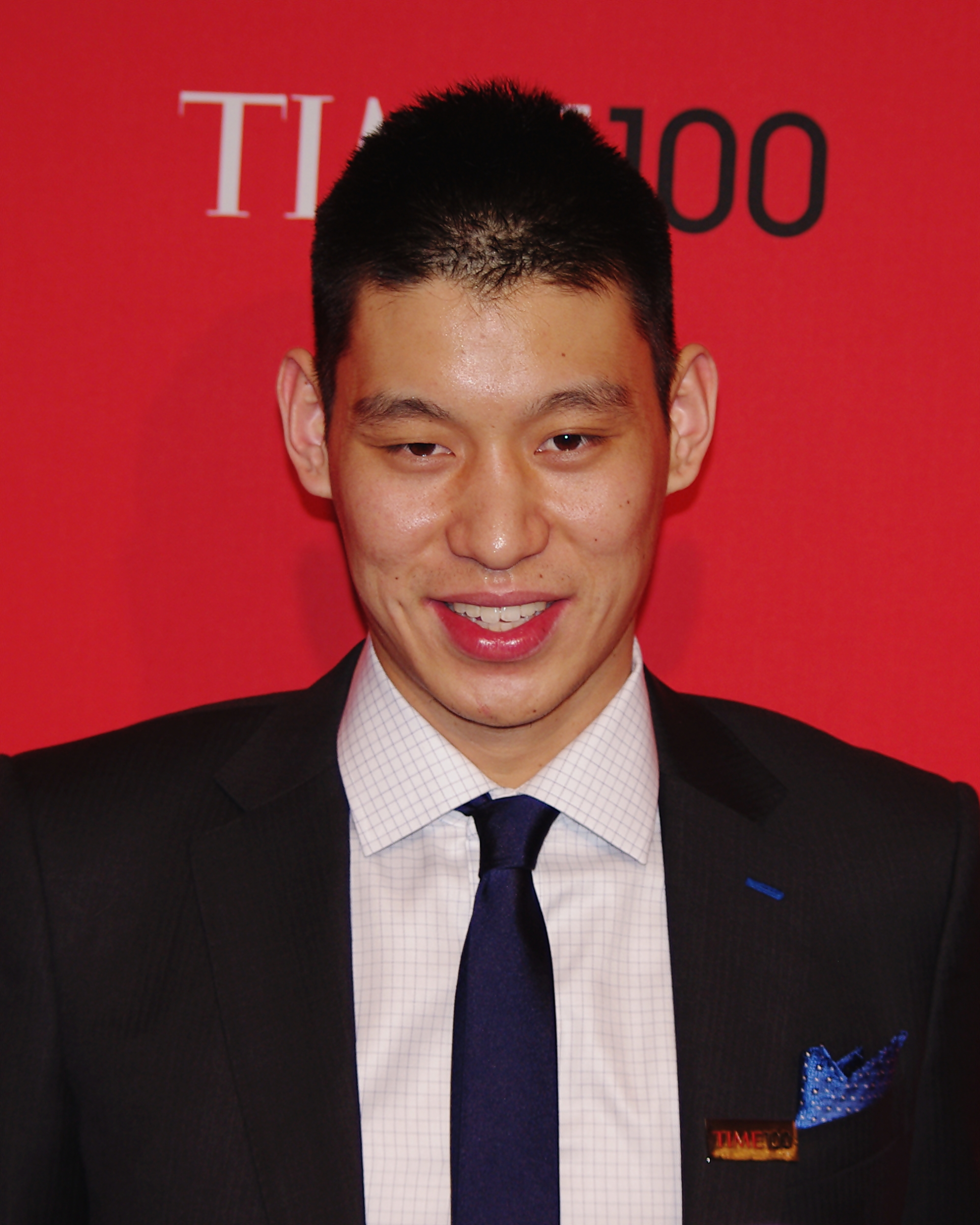 Jeremy Lin at the 2012 Time 100 gala.Bân-lâm-gú: tī Time 2012 nî chi̍t-pah bêng-jîn chū-hoē ê Lîm Su-hô(林書豪)。 Bân-lâm-gú: 佇Time 2012年一百名人聚會的林書豪。